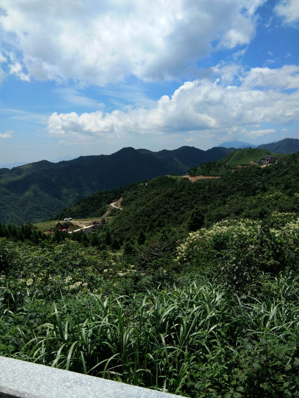 The Yunwu Mountain in Jinshiqiao Town of Longhui County, in Hunan, China